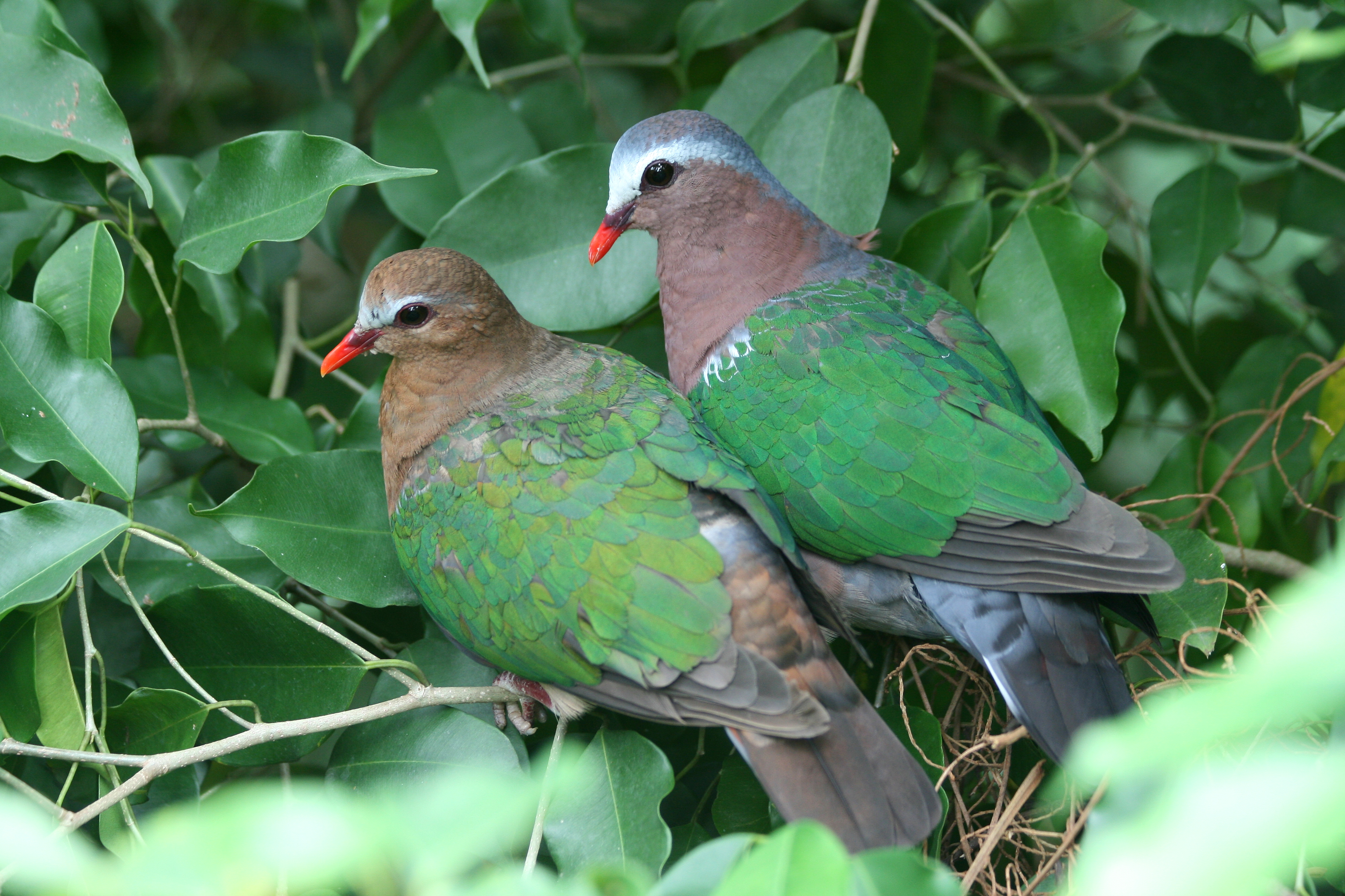 A pair of Common Emerald Doves in captivity.